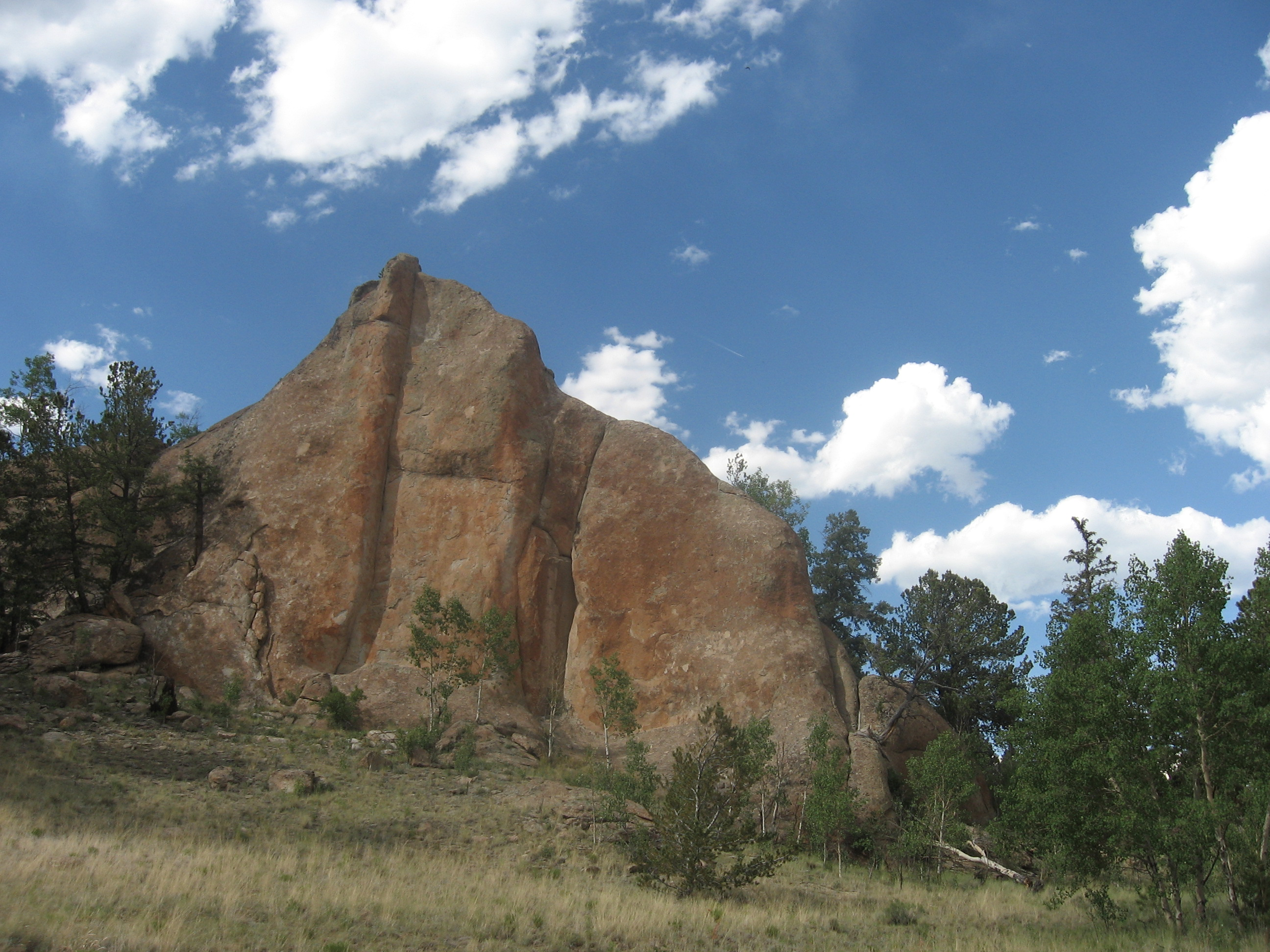 East of Cochetopa Pass